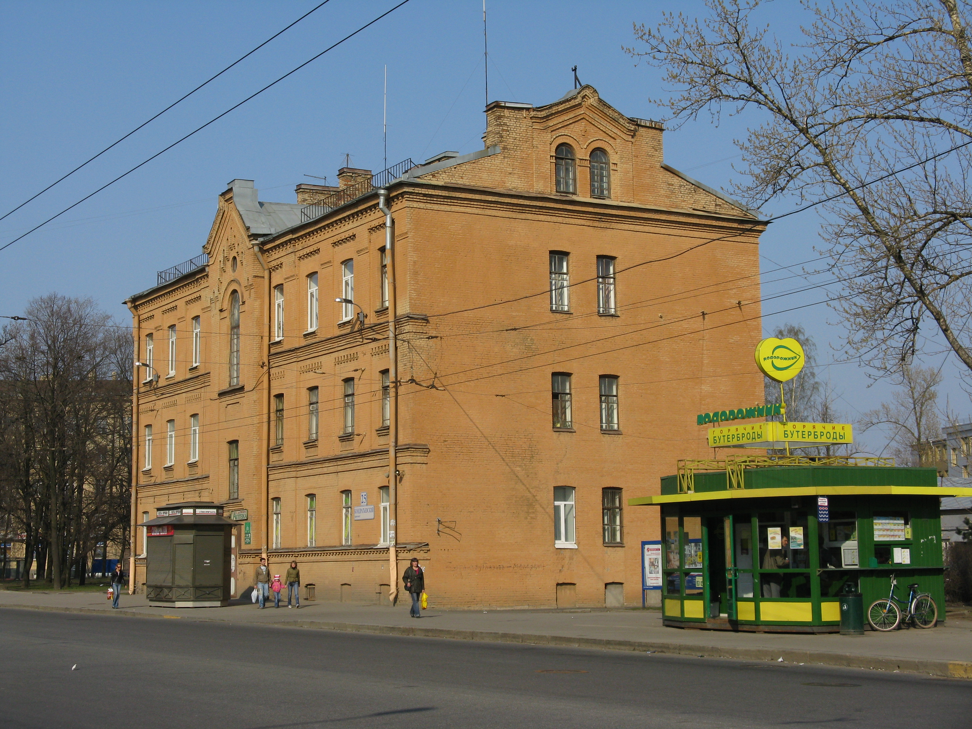 Kondratievsky Avenu, 25. Architect - Nikolay Eremeev